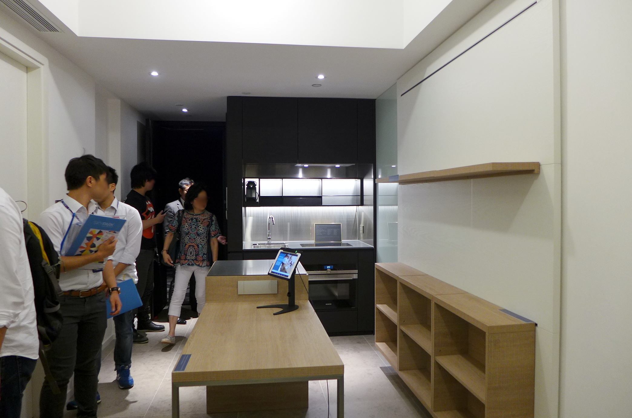 SKYPARK Showflat